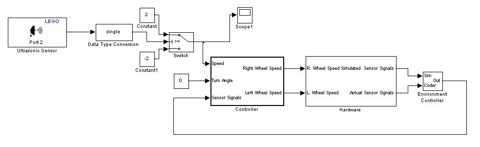 Algorithm based on lookup table to relate speed to sensor distance.